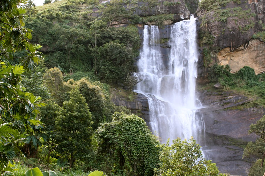 A remote waterfall in the Ulughuru mountains near the village of Kinole.